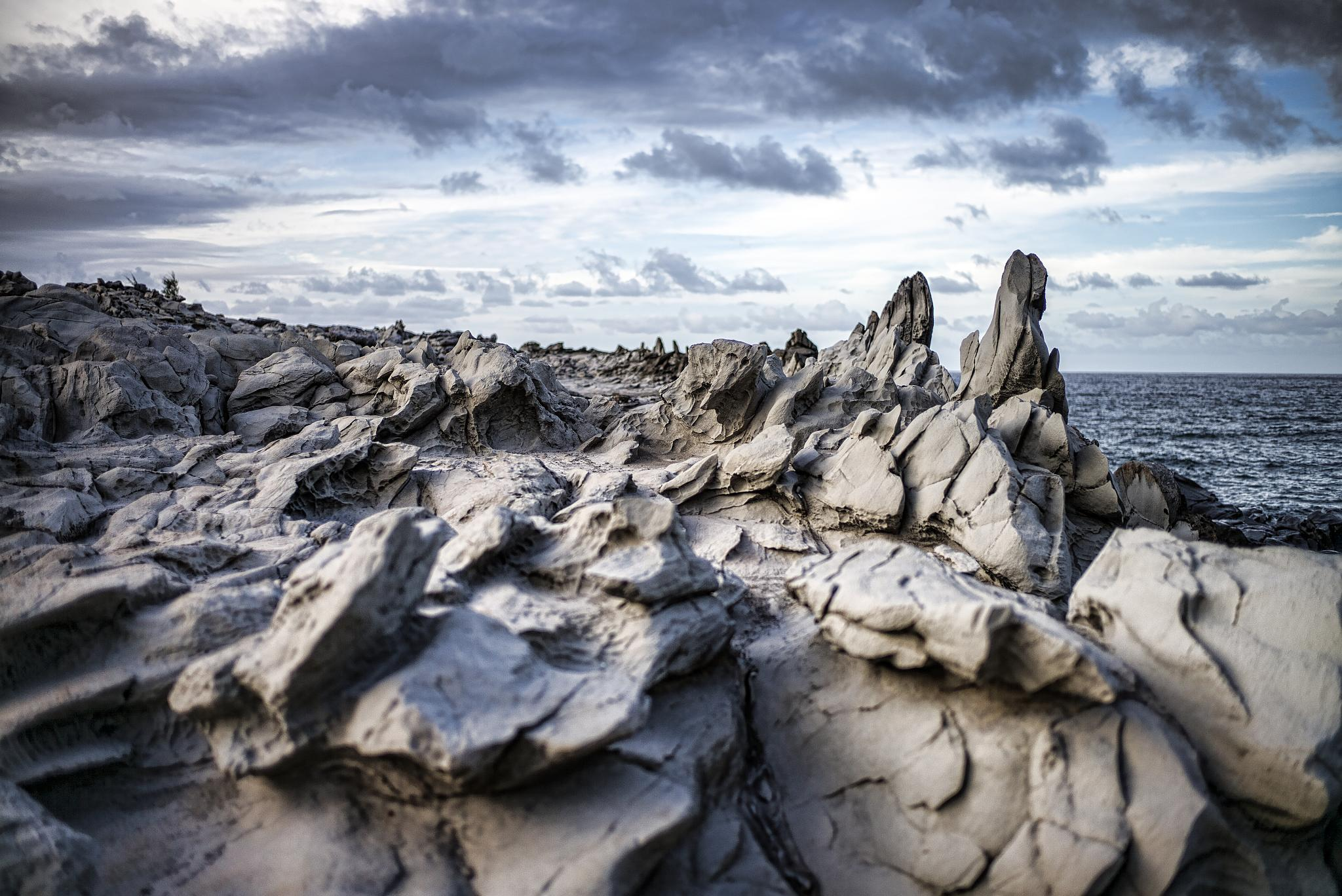 Dragon's Teeth lava formation from the West Maui volcano, found at Makaluapuna Point near Kapalua, Maui